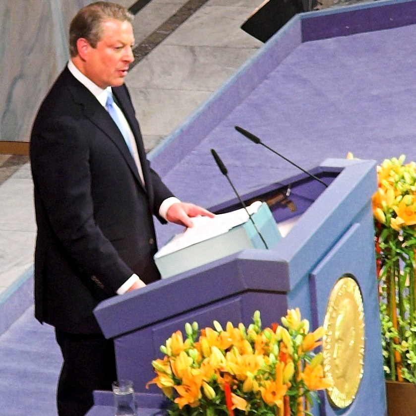 Al Gore recieving the Nobel Peace Price 2007.